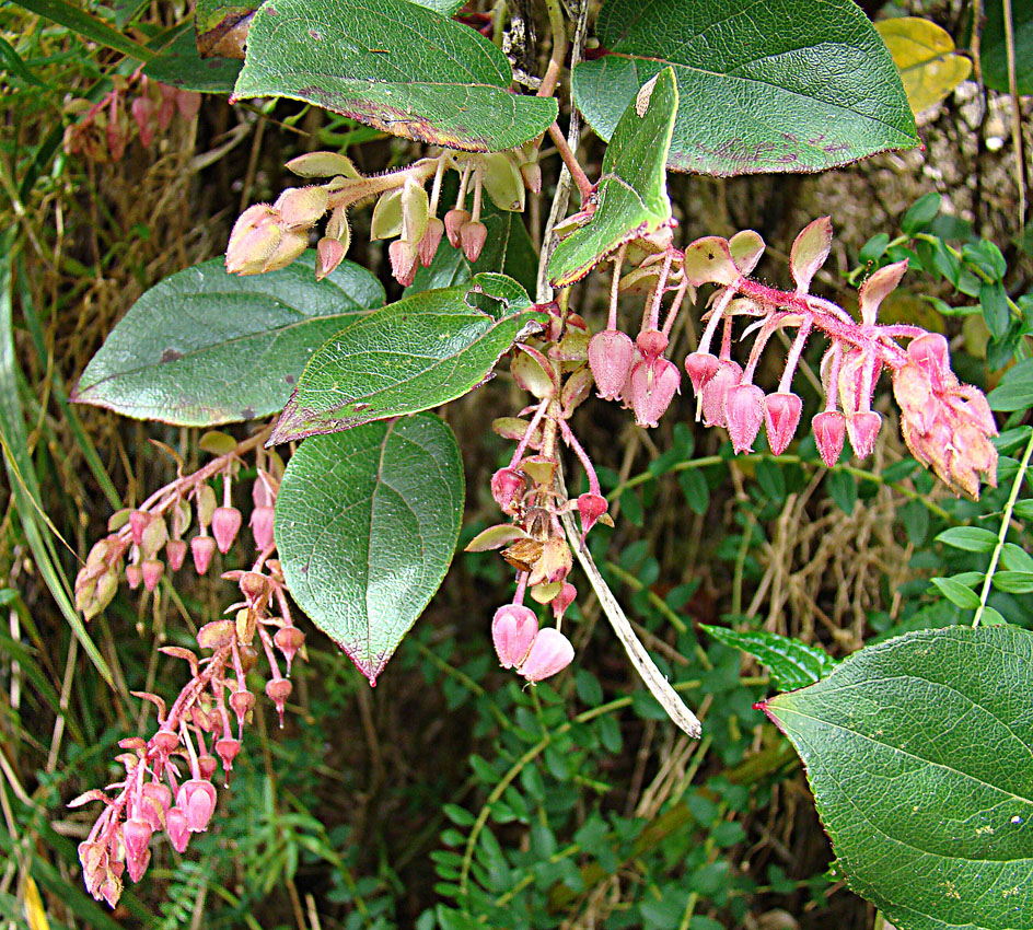 Encountered in the mountains from southern Mexico to northern Argentina. Photo from Cerro de Muerte, Costa Rica. In context at